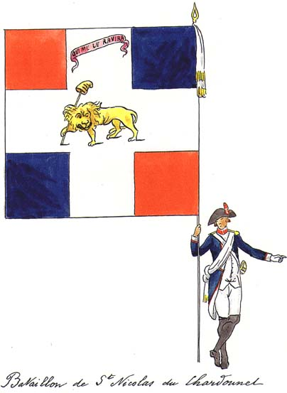 Drapeau Garde républicaine du District Saint Nicolas du Chardonnet